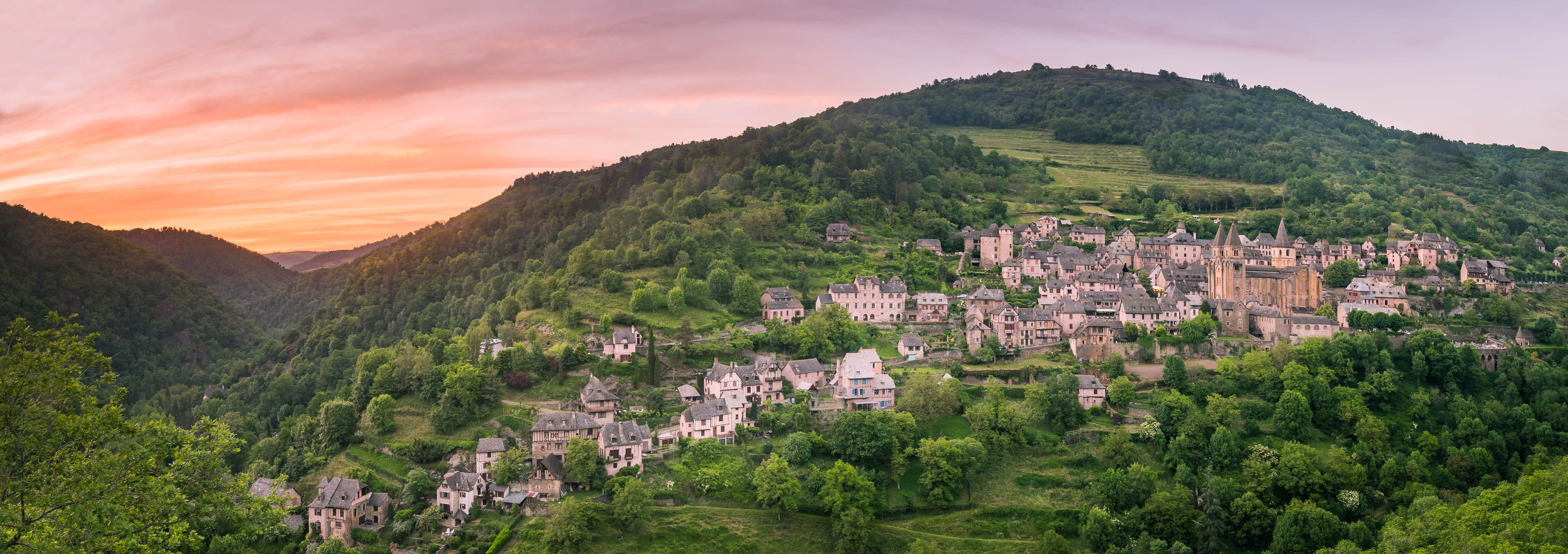 Panoramic view of the sunset in Conques, Aveyron, France